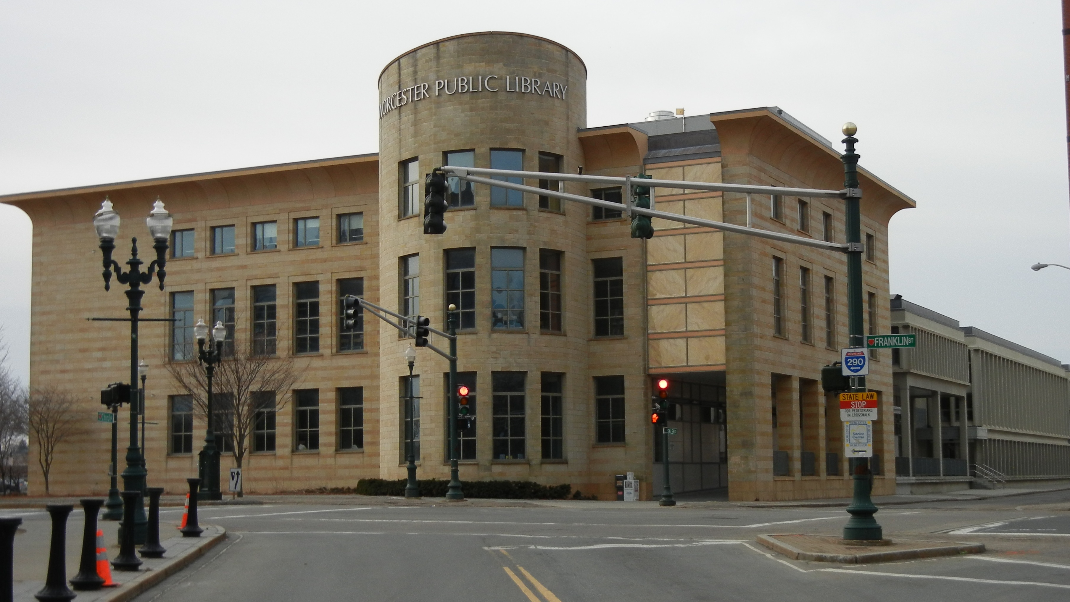 Worcester Public Library at 3 Salem Street in Worcester, Massachusetts (USA)